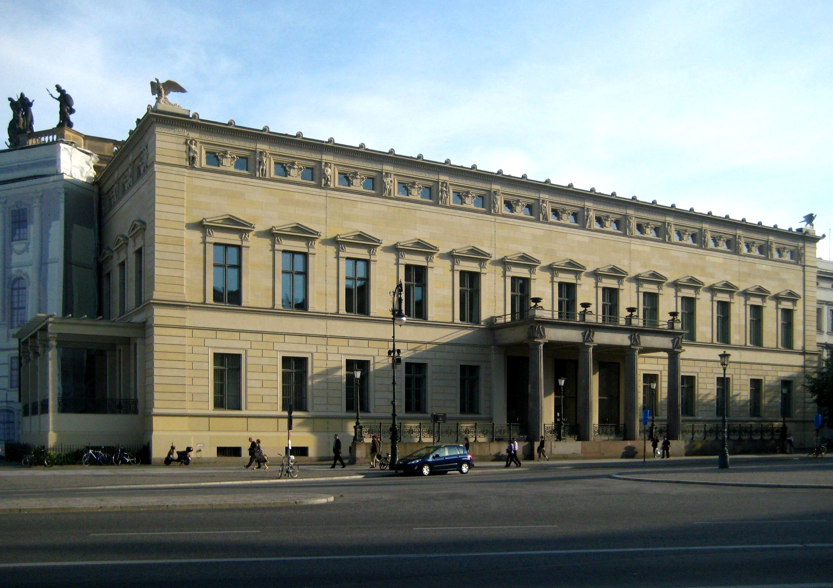 The Alte Palais (Old City Palace), Unter den Linden, in Berlin-Mitte, also known als Emporer William's Palace. It was built between 1834 and 1837 to a design by Karl Ferdinand Langhans. The building is landmarked.